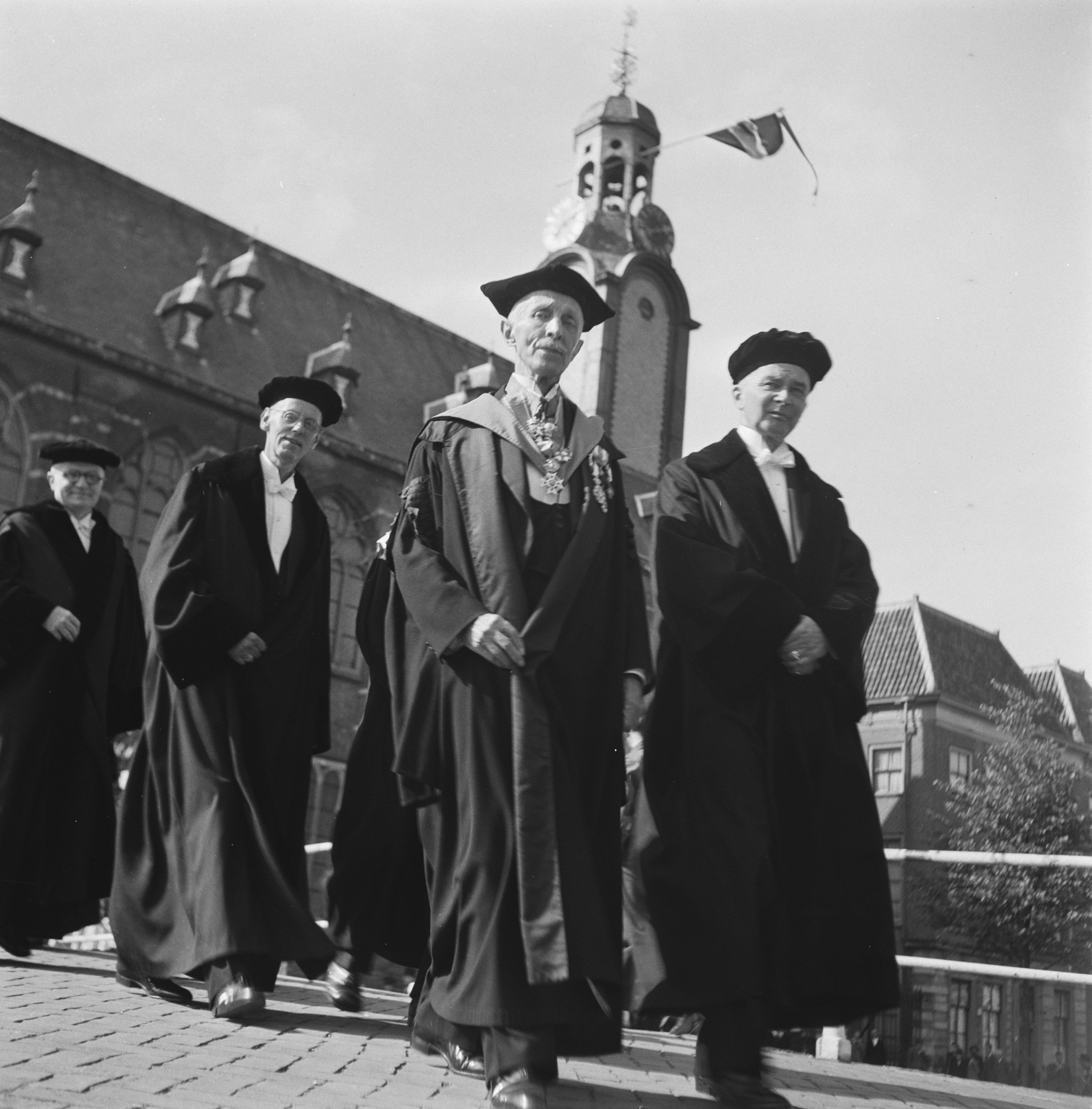 Leiden professors marching from the Academy Building to the Peter's Church in Leiden (opening of the academic year). Left to right: unknown professor, Berend Escher (geology), rector Willem van der Woude, Rudolph Cleveringa (?). 17 Sept. 1945